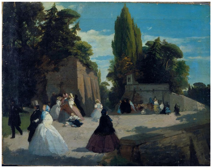 La passeggiata del Muro Torto, oil on canvas, 44 x 56 cm, Istituto Matteucci, Viareggio (Italy)